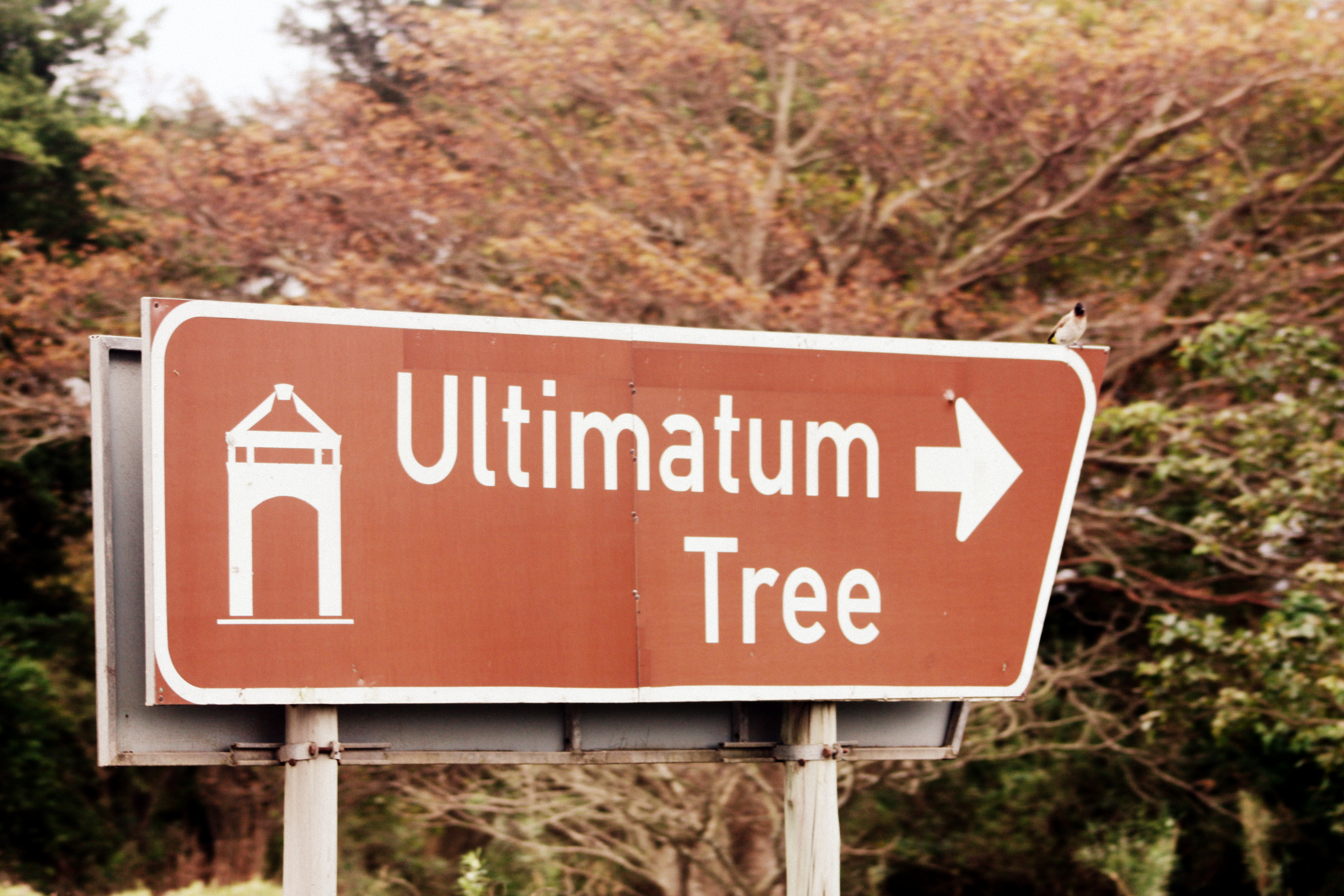 Sign towards Ultimatum tree